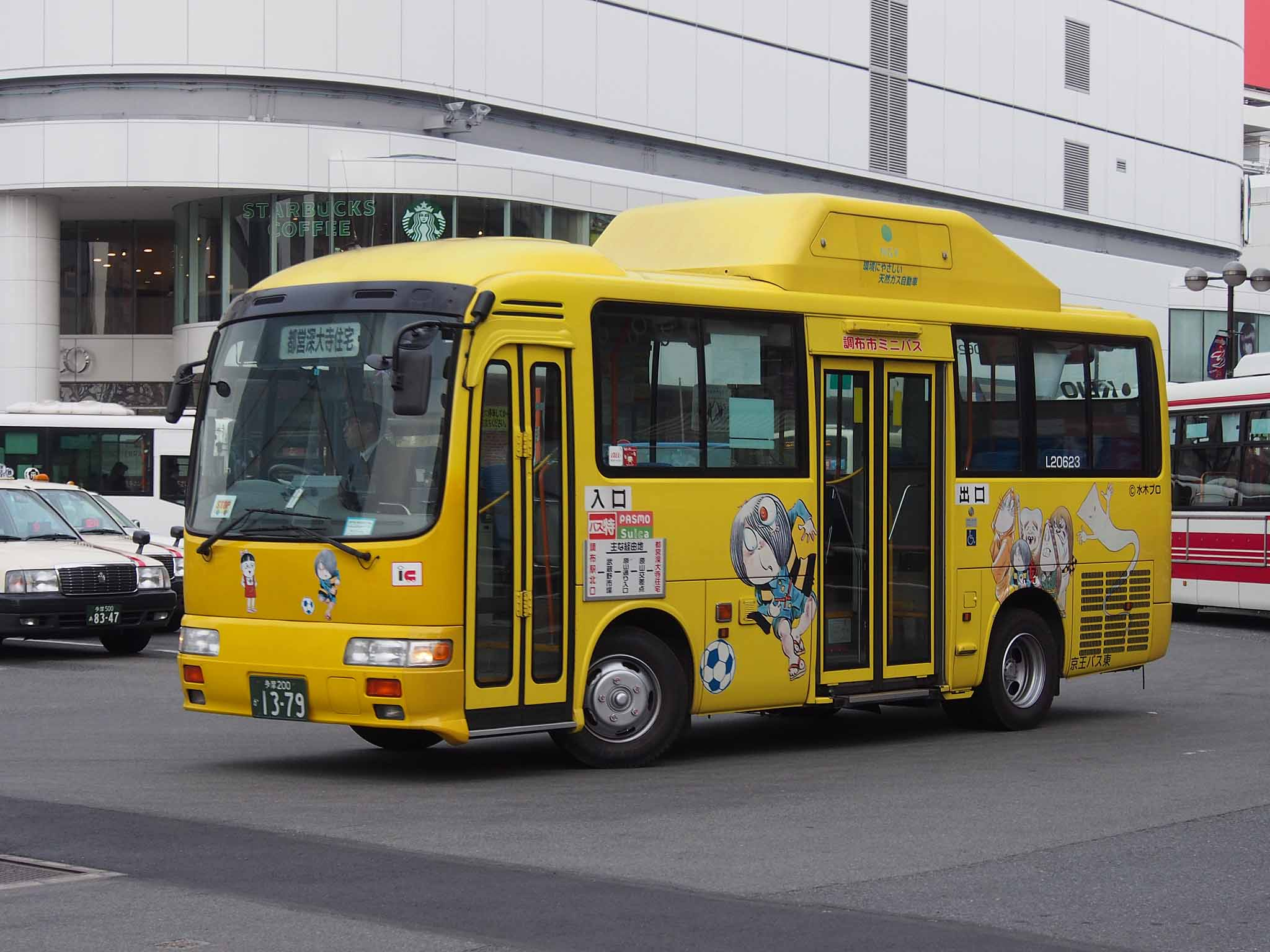 Fleet of Chofu City Mini Bus, North Route is opareted by Keio Bus Higashi. Model: Hino Liesse PB-RX6JFAA CNG modification: Flat Field License plate: TKT200 KA1379 Place: Keio Electric Railways Chofu Station, Chofu City, Tokyo Japan